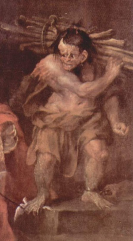 Caliban de "La Tempête" de William Shakespeare